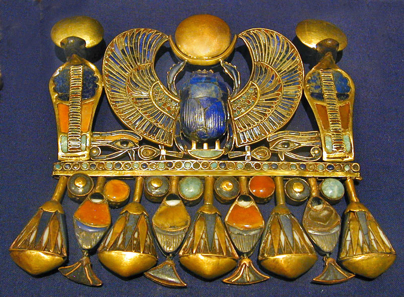 Winged scarab of Tutankhamun with semi-precious stones.This pectoral is composed of Tut's Prenomen name: "NebKheperU-Ra", the hieroglyphs of: Basket, Scarab-(in Plural-strokes), and Re. (The "James, 2000, Picture Book, Tutankhamun, describes this pectoral in the section of 'Necklaces and Pectorals', as: "Pectoral with Royal Prenomen and Lotus Fringe", p. 234.)(Two other hieroglyphs are on the pectoral, the Eye of Horus, and the Ankh.)